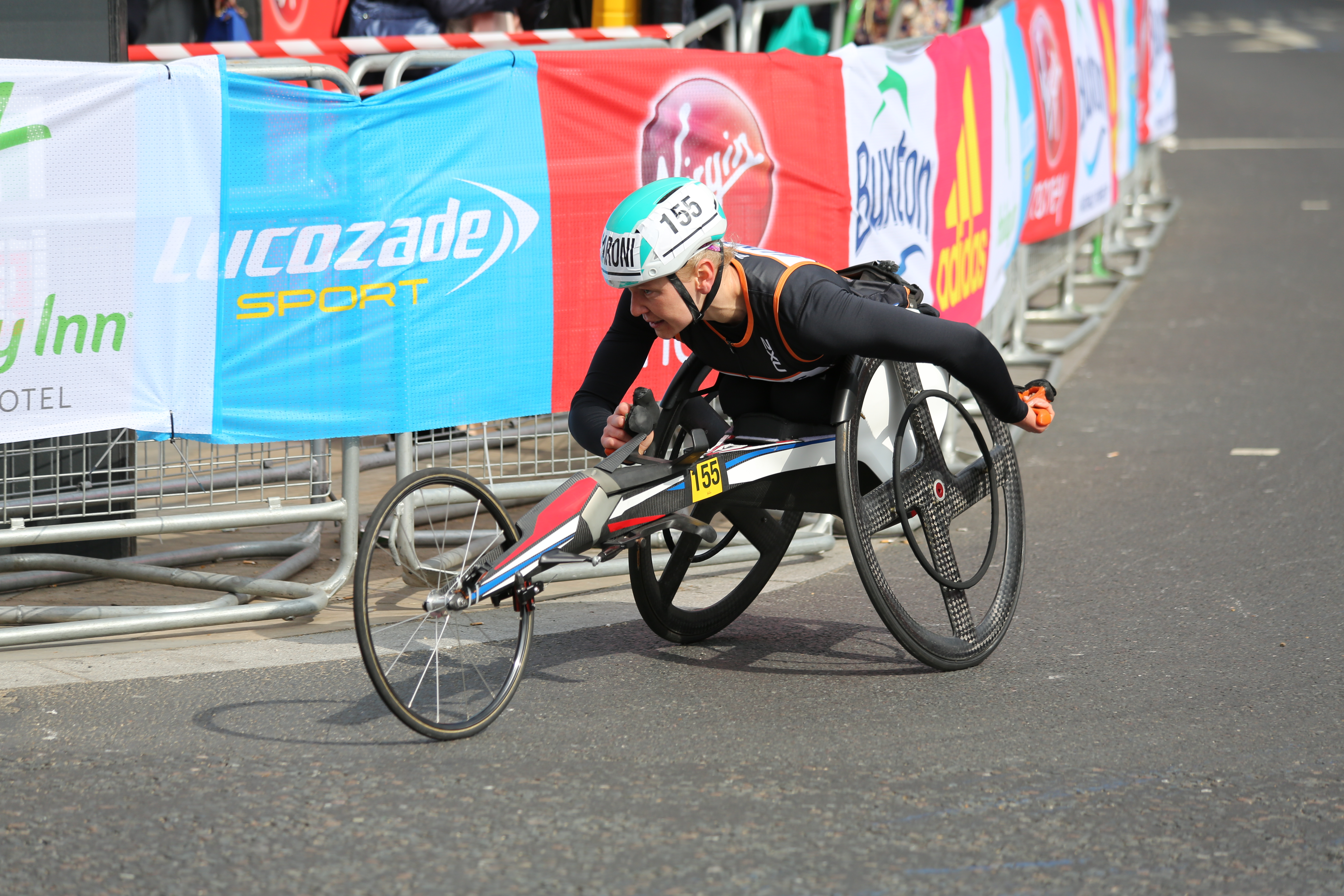 2017 London Marathon – World ParaAthletics Marathon World Cup (Wheelchair) – Susannah Scaroni